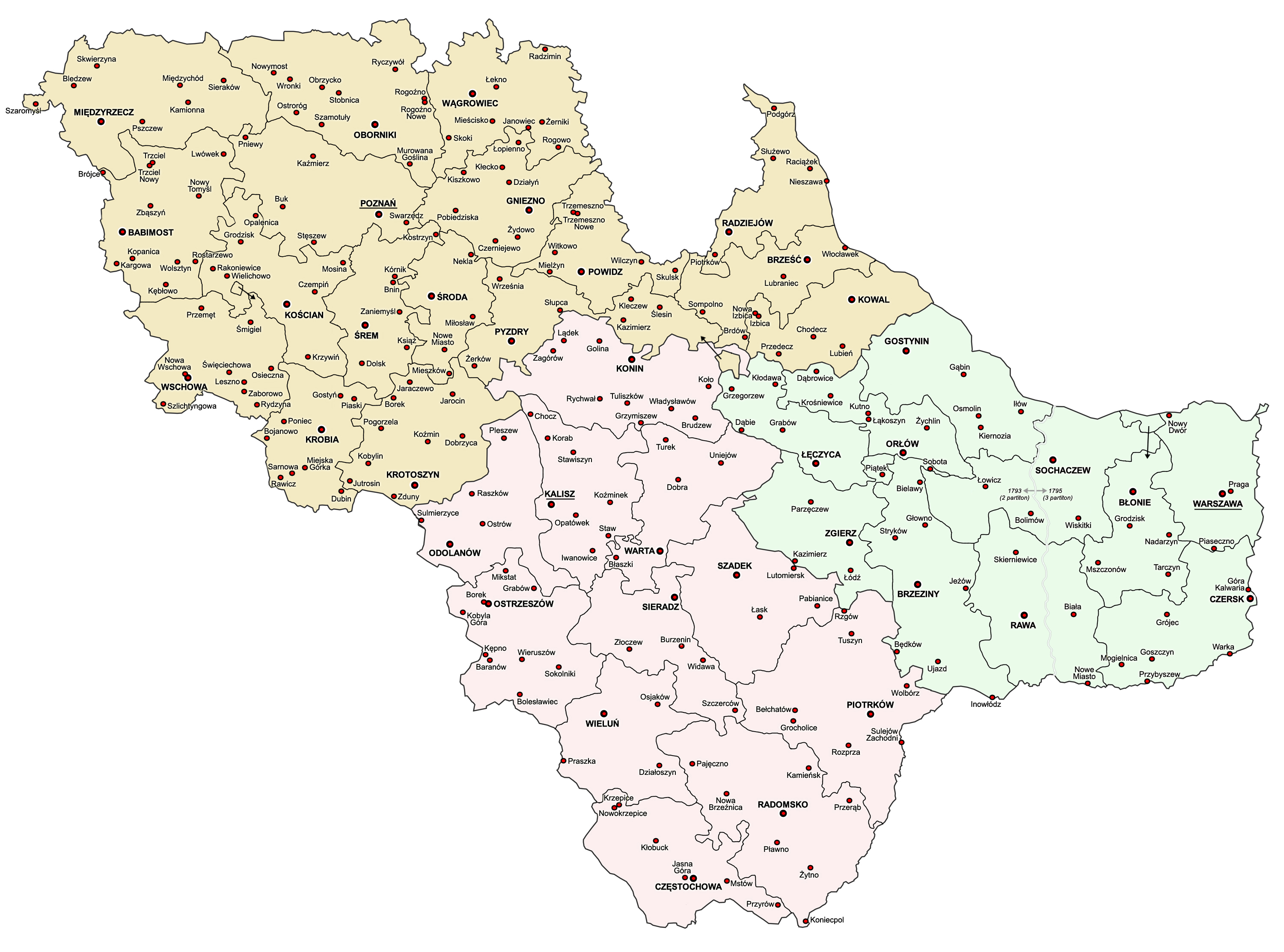 South Prussia (Südpreußen, Prusy Południowe) as of 1795–1806 – administrative map with departments, districts and all towns (in Polish language). Yellow = Posen (Poznań) department; Pink = Kalisch (Kalisz) department; Green = Warschau (Warsaw) department. The boundary between 2nd and 3rd partition of Poland (1793/1795) shown in the Warsaw Department. All localtities which had town status sometime during the period 1793–1806 are shown.